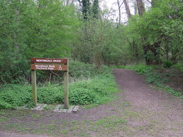 Photo of Nightingale Wood at the Turnford and Cheshunt Pits